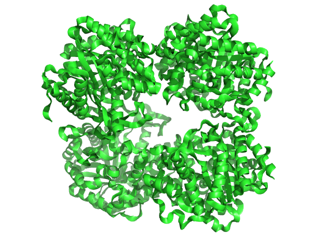 A ribbon depiction of beta-glucosidase A from bacterium Clostridium cellulovorans